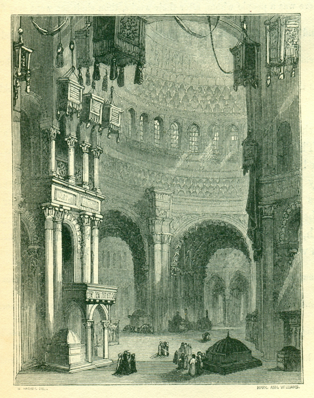 Woodcut Illustration to The Story of the City of Brass from the Arabian Nights